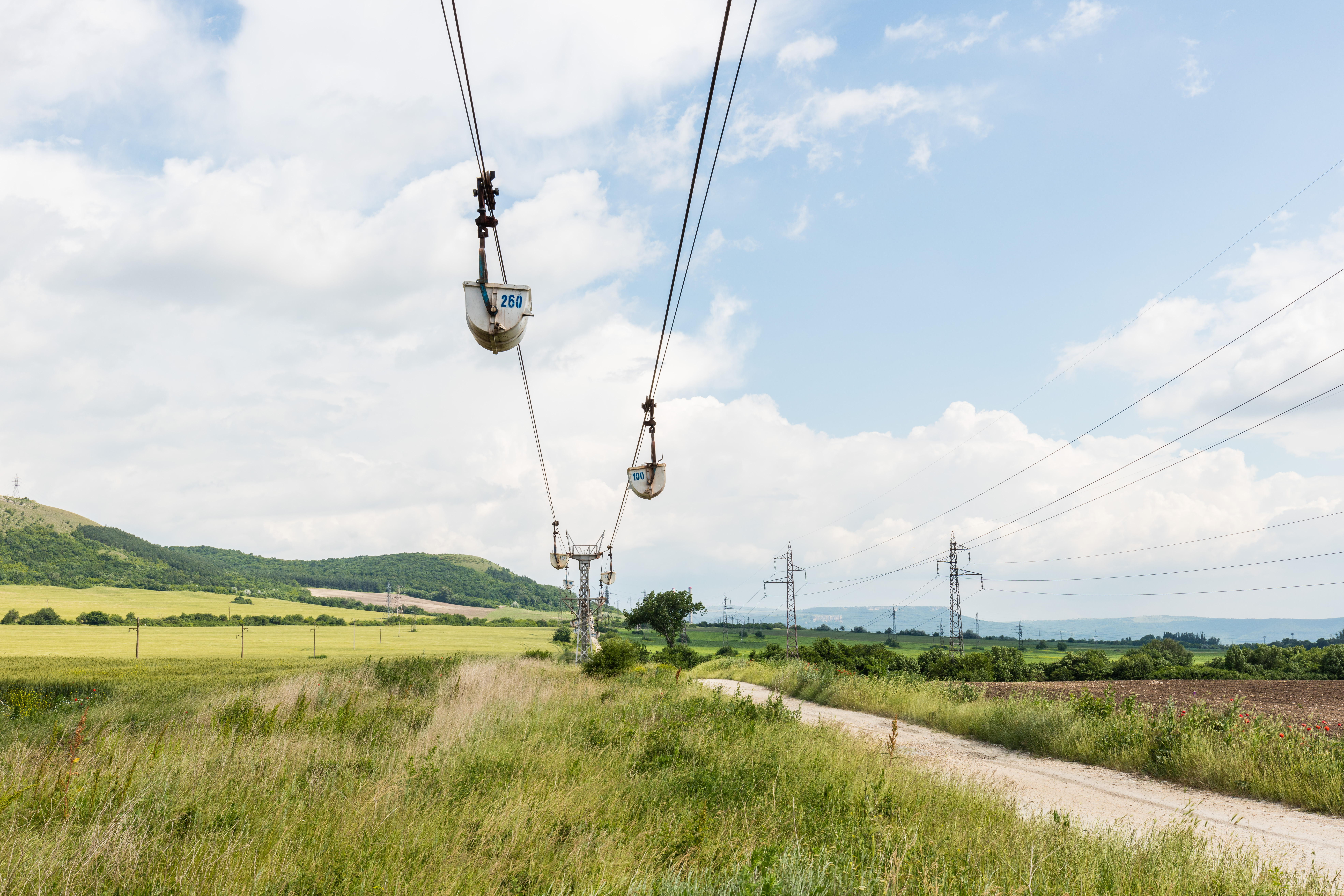 Mineral cable transport, Bulgaria